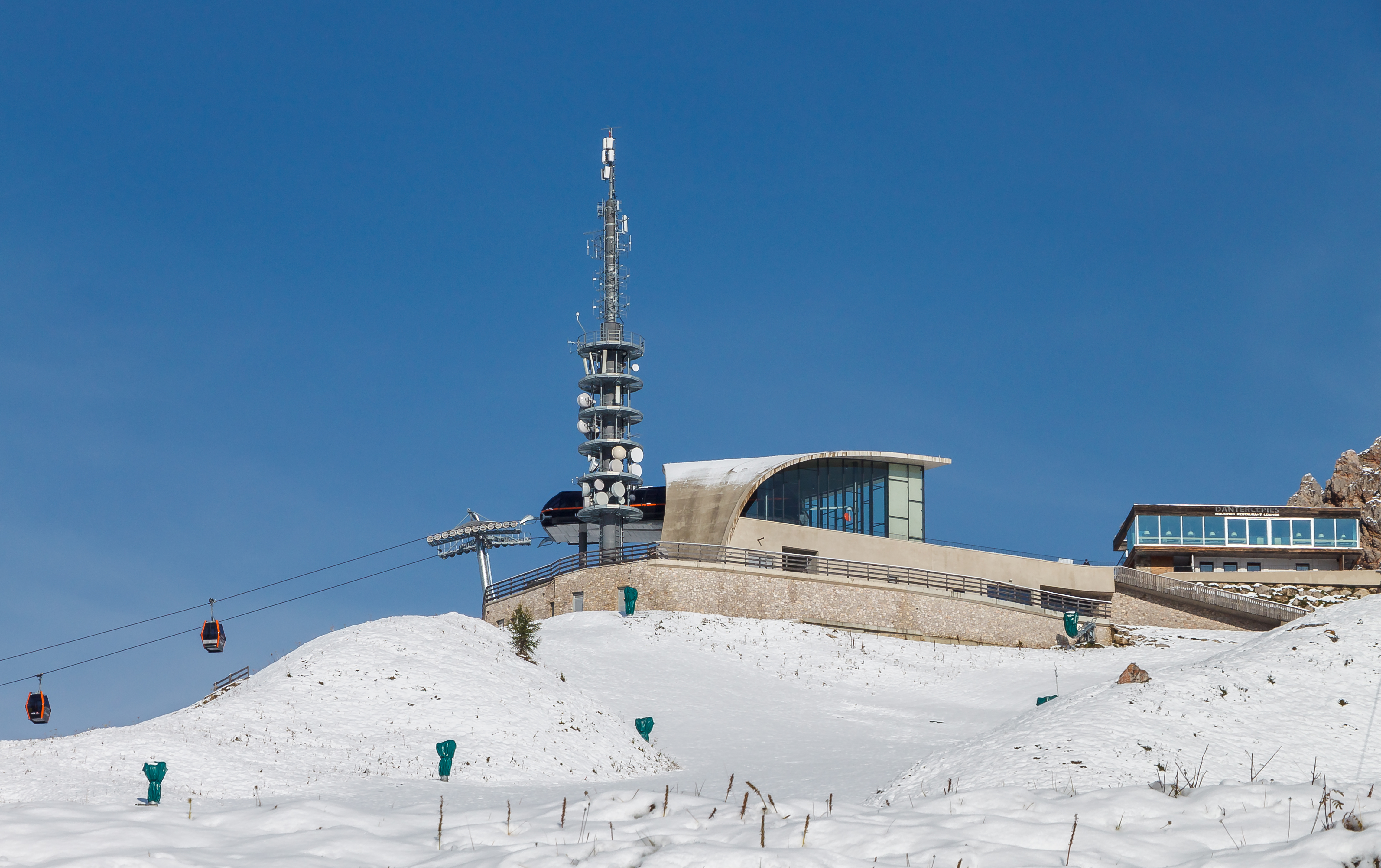 Upper terminus of the Dantercepies aerial lift, Sëlva, South Tyrol, Italy in Summer after snowfall.